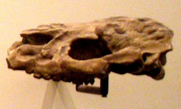 Skull of Protapirus, an extinct tapir